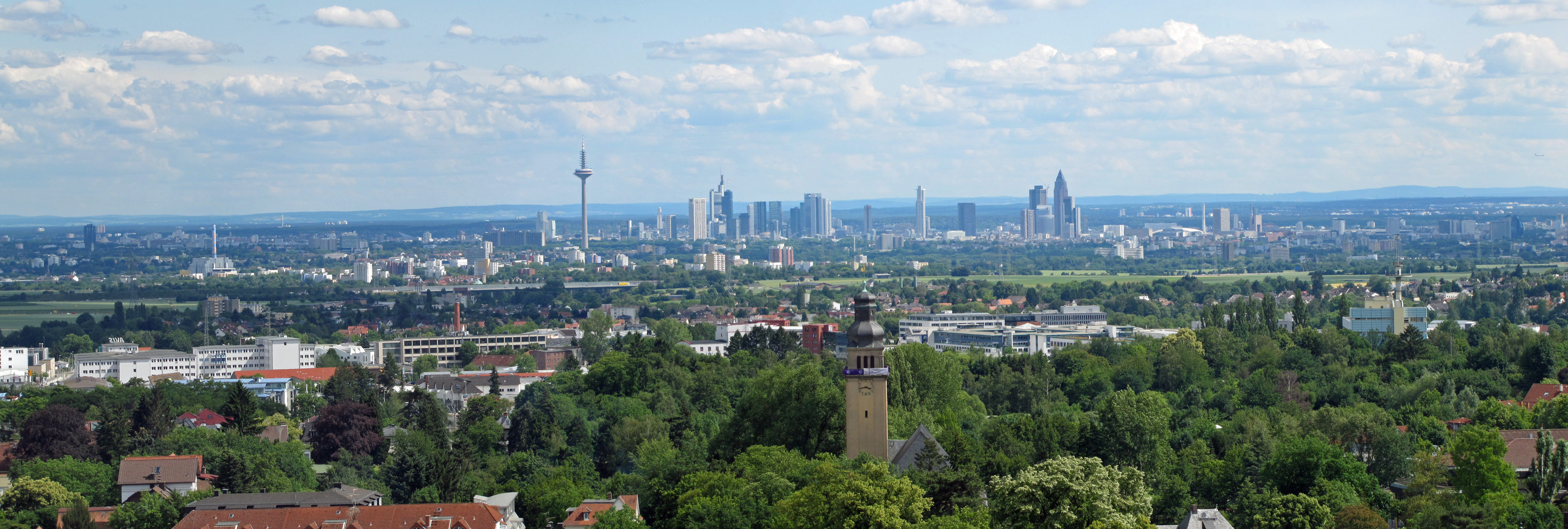 Frankfurt am Main, seen from tower of St. Ursula in Oberursel, Hesse, Germany.